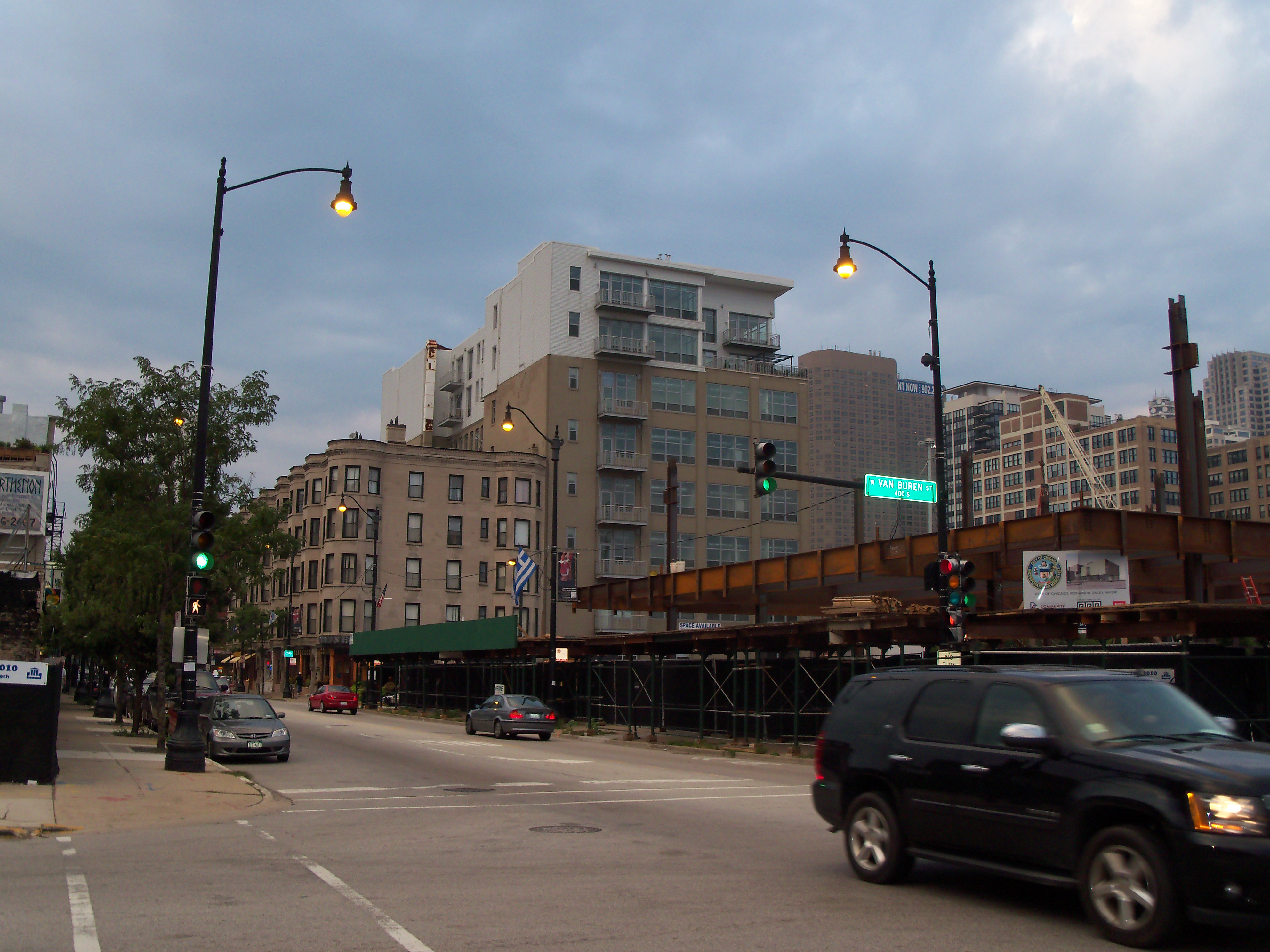 Greektown, Chicago, IL, USA